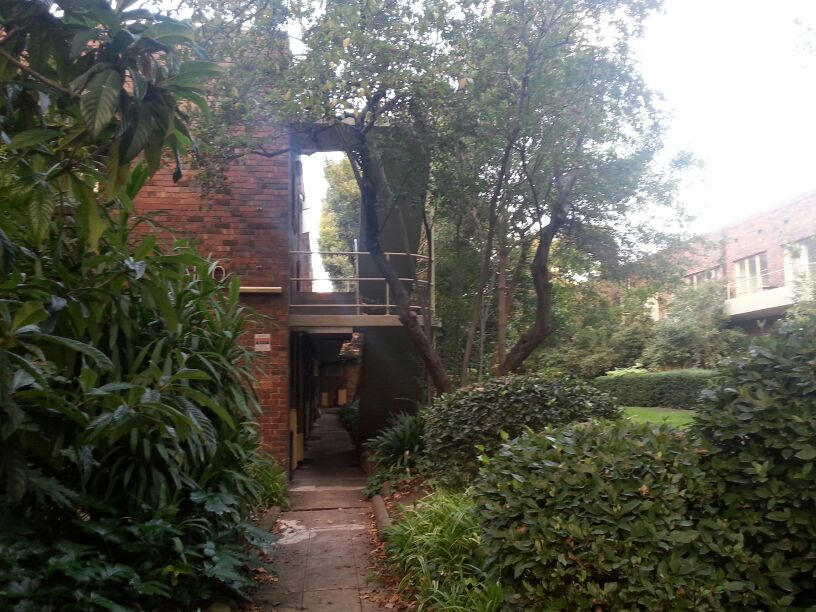 Picture showing Cairo Housing in North Fitzroy